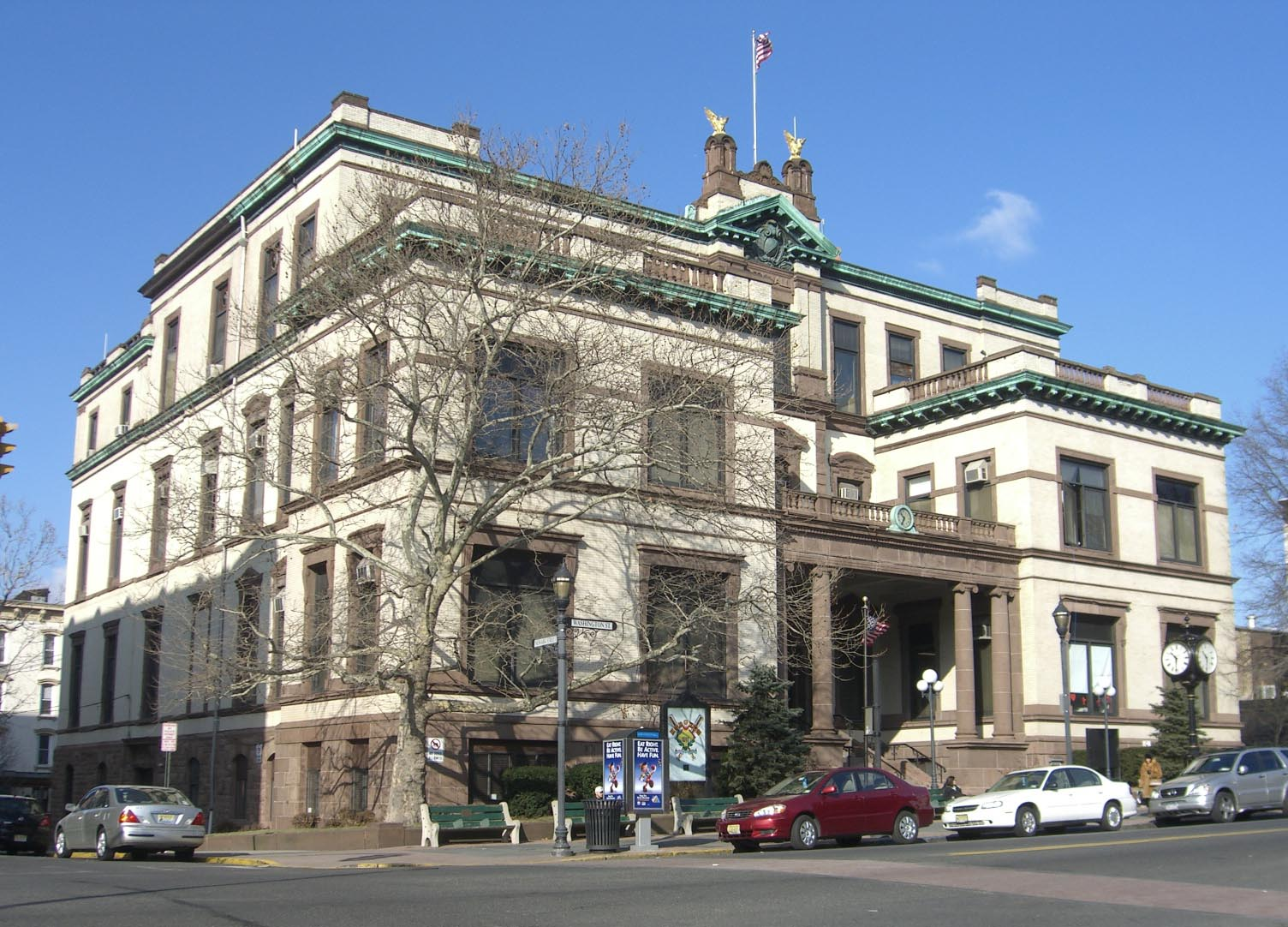 Hoboken City Hall in Hoboken, New Jersey. Photo by Luigi Novi. This photo may be used for any purpose, provided that the photographer is visibly credited in each instance where it is used. Failure to comply with this licensing requirement (As Clearview Cinemas did when they used this older photograph of mine of City Hall without attributing it to me), is a violation of copyright, as the image is not in the public domain. For further information on the Licensing requirements (See Licensing information below), contact me here.